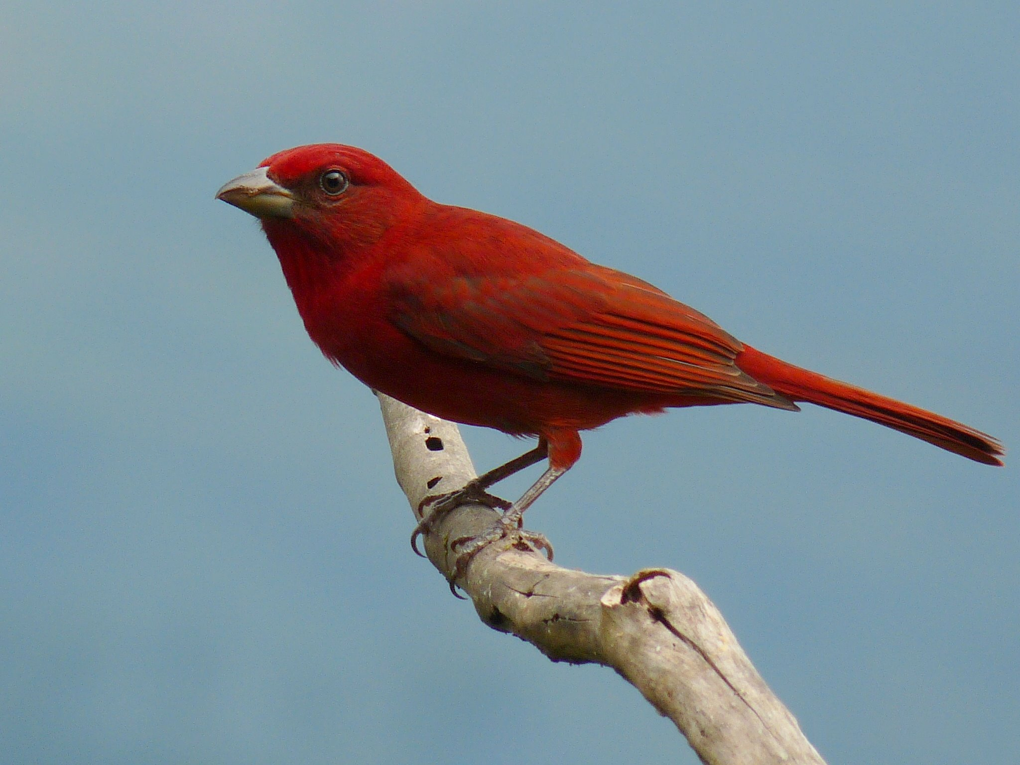 A male Tooth-billed Tanager Piranga lutea in Manizales, Caldas, Colombia.